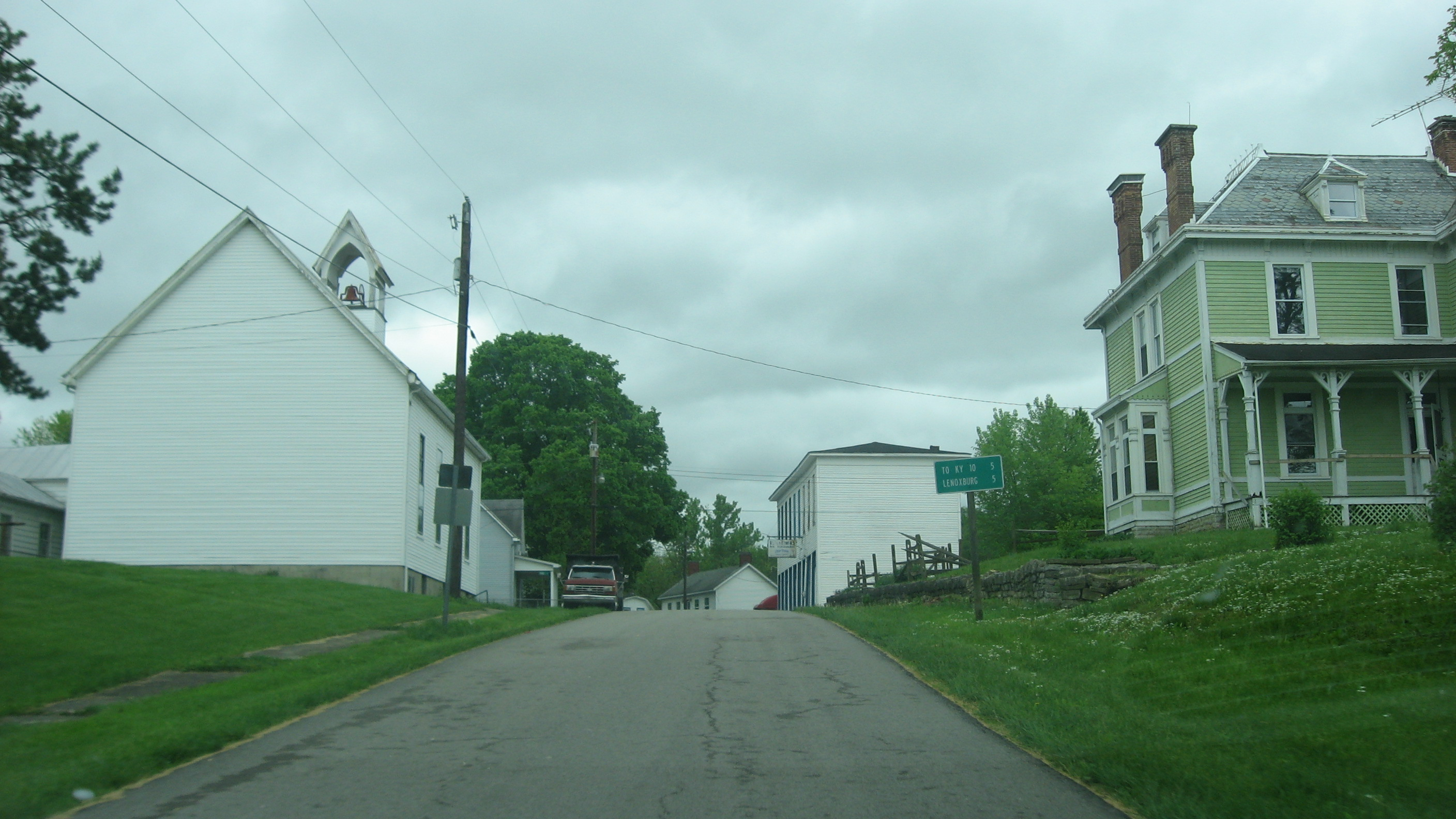 Looking southward along Kentucky Route 1019 at Foster in Bracken County, Kentucky, United States.